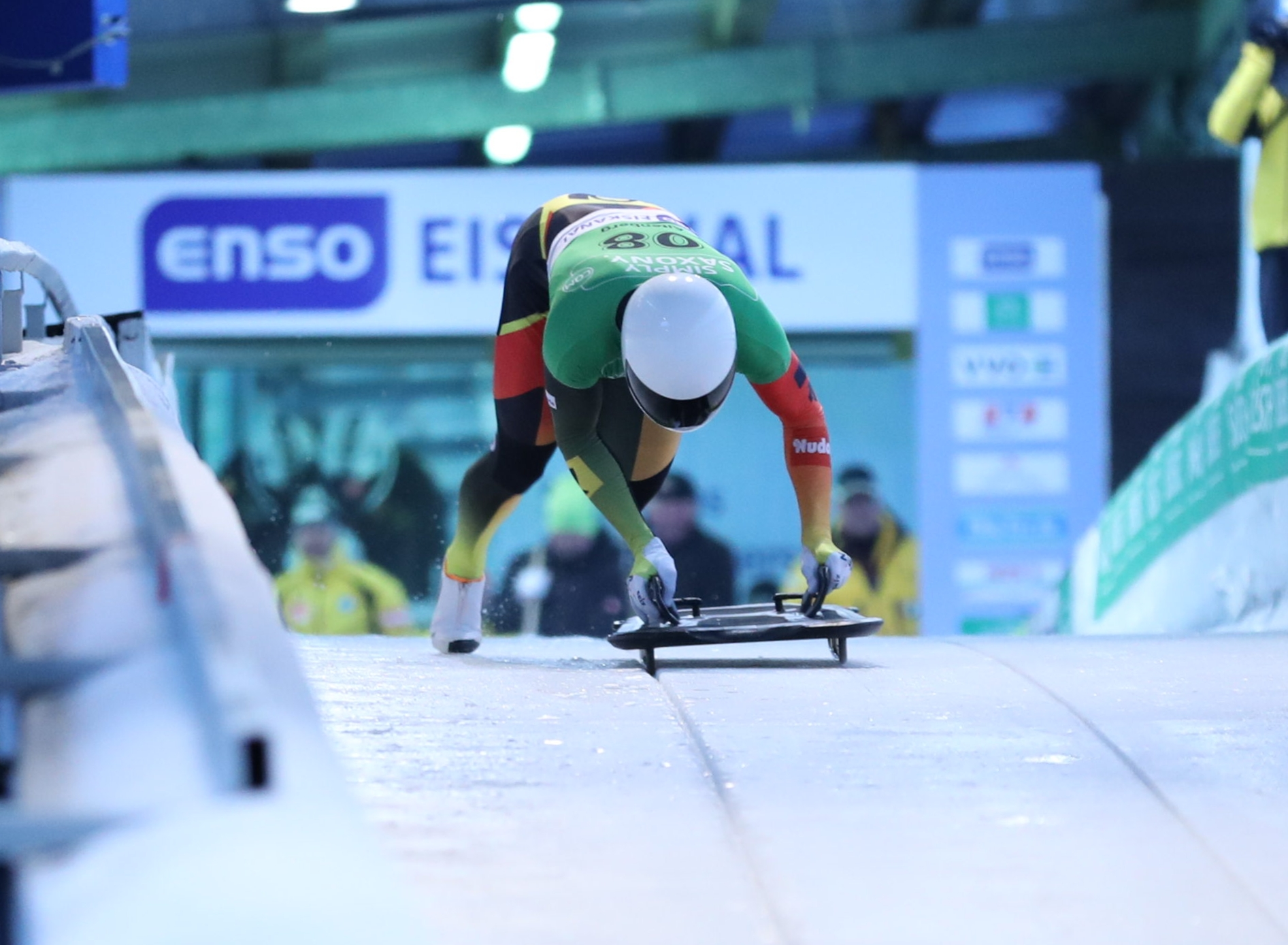 1st run at the Men's competition at the German Skelton Championships 2018/19 in Altenberg